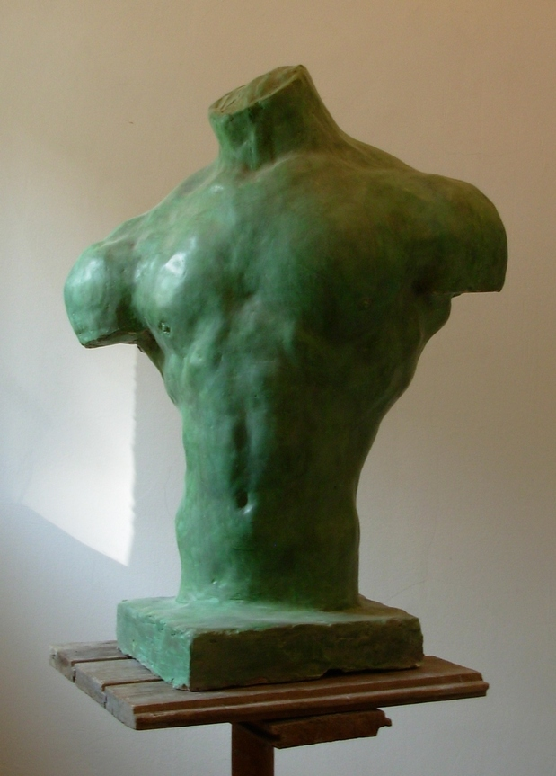 Vladislava Krstić, Torso-2